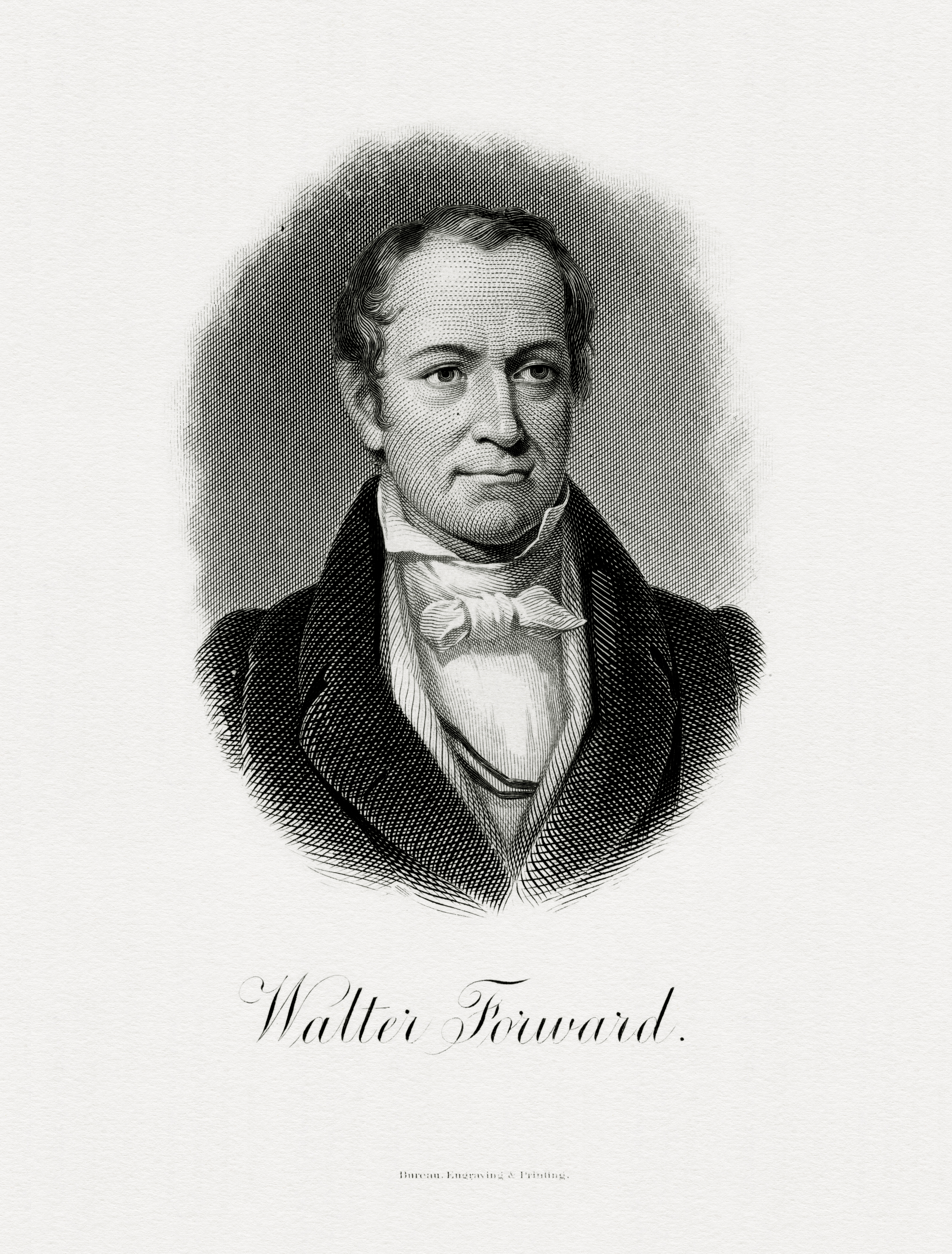 Engraved BEP portrait of U.S. Secretary of the Treasury Walter Forward